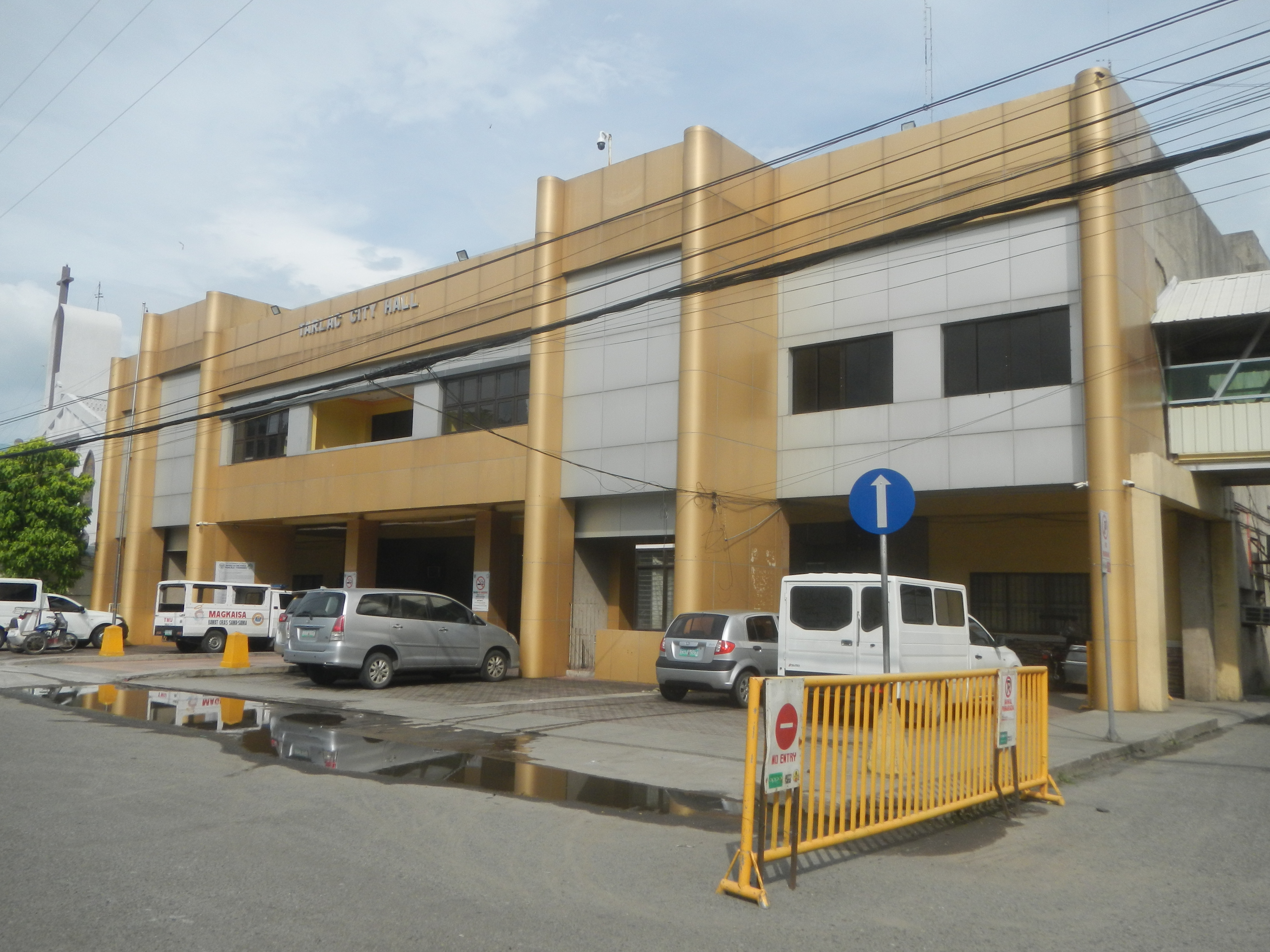 Plaza Central Iglesia Filipina Independiente (Tarlac City) Alberto R. Ramento Isagani Lodge No. 96 Free and Accepted Masons, Tarlac City The United Methodist Church, Tarlac City - Ecumenical Christian College Botica Sto. Cristo Facade of Tarlac City Hall Andres Bonifacio monument in Tarlac City Ecumenical Christian College, Tarlac City Magic Star, Tarlac City McDonald's restaurants in Tarlac City Ninoy Aquino Monument in Tarlac City Tarlac City Hall People Power People's Park (Ninoy Aquino Tarlac City Plazuela) located at F. Tañedo and J. P. Rizal Streets Cut-cut I and Cut-cut II, Tarlac City List of Barangays in Tarlac, Barangays Cut-cut I and Cut-cut II, 15°29'11"N 120°35'10"E Tarlac City, Tarlac Province Philippine highway network (Note: Judge Florentino Floro, the owner, to repeat, Donor Florentino Floro of all these photos hereby donate gratuitously, freely and unconditionally Judge Floro all these photos to and for Wikimedia Commons, exclusively, for public use of the public domain, and again without any condition whatsoever).